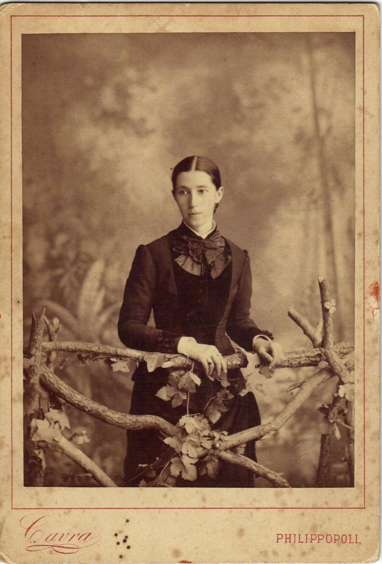 Bulgarian teacher Ivana Hadzhigerova